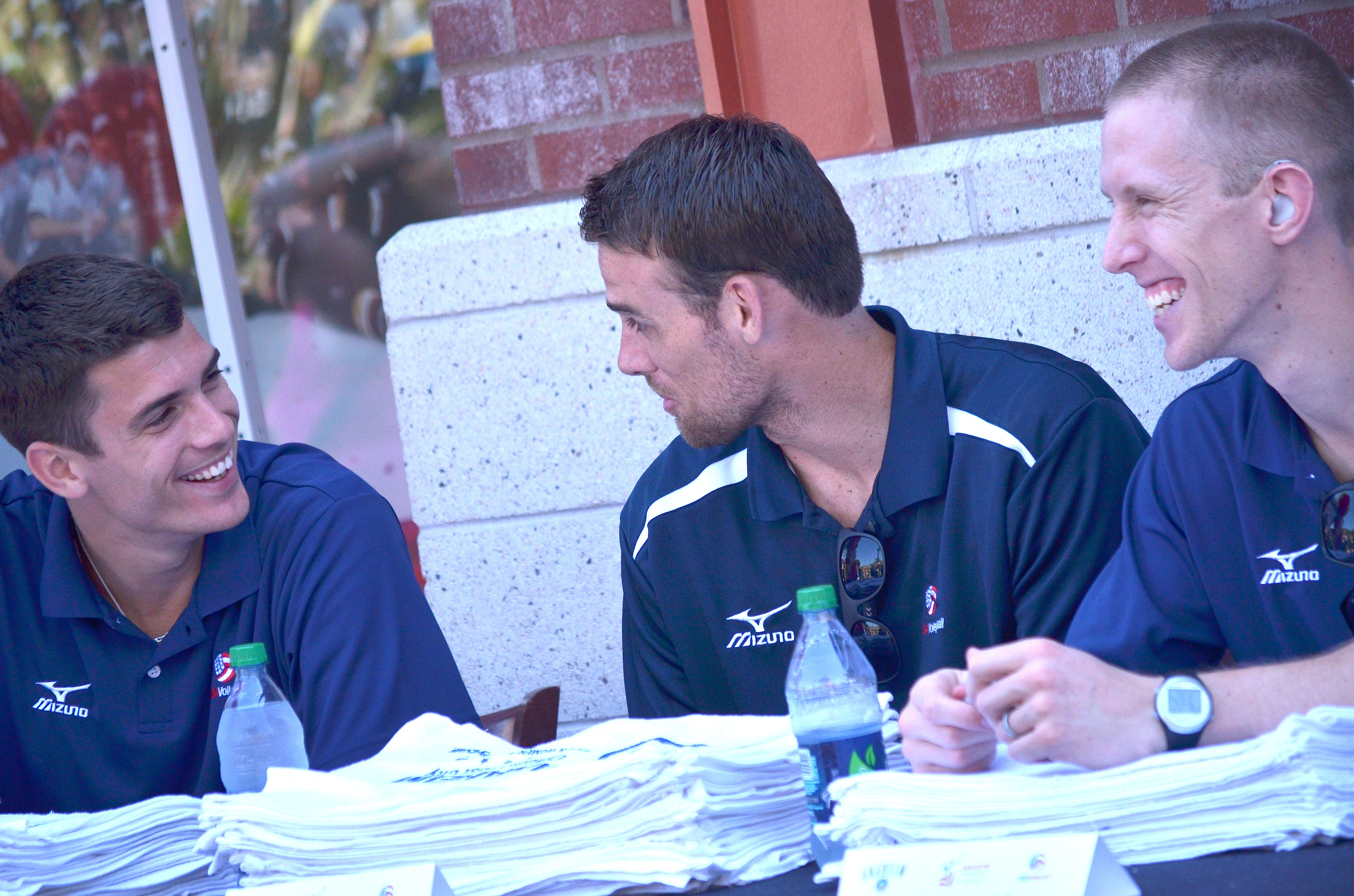 Members of the U.S. Men’s National Volleyball Team